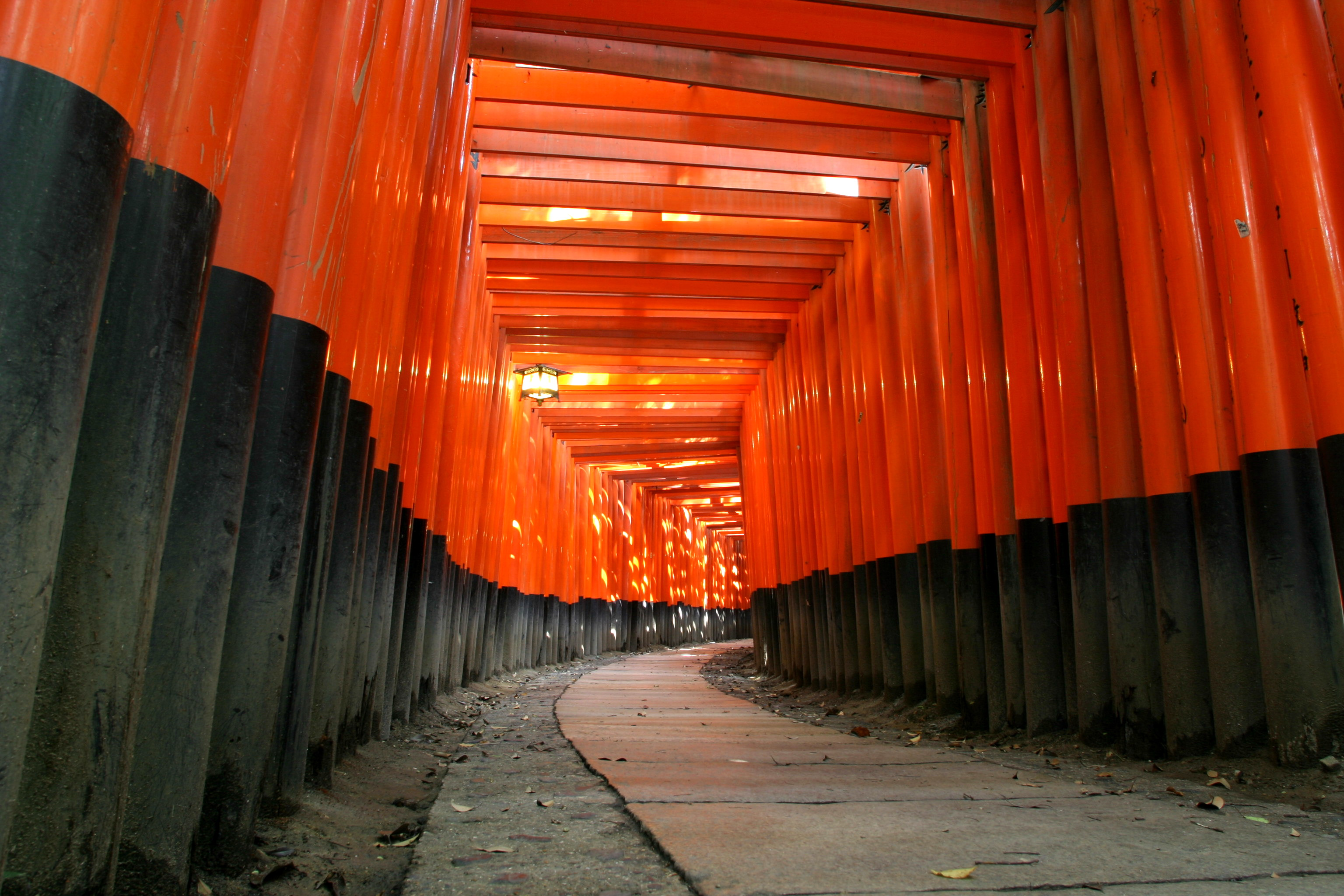 Larger version of my Kyoto Fushimi Inari Torii photo